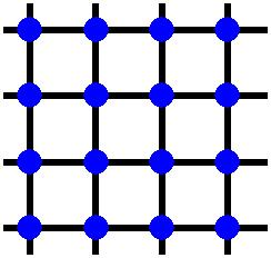 Grid of processors